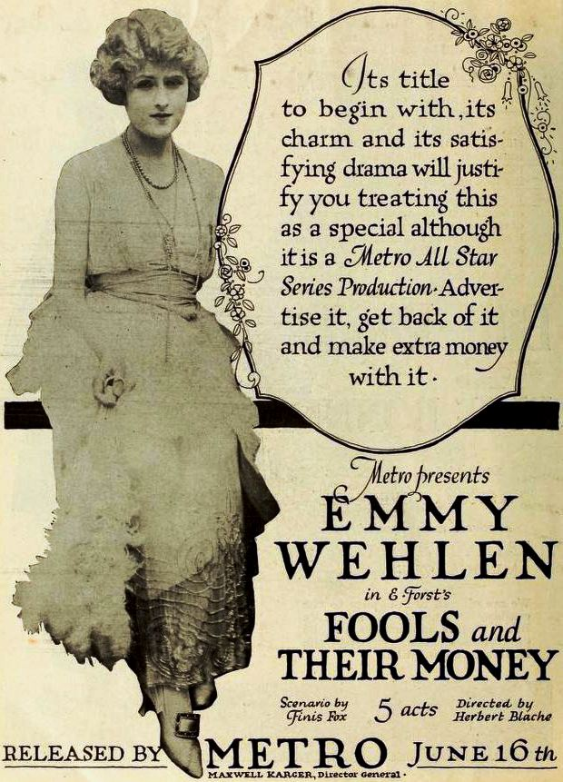 Ad for the American comedy film Fools and Their Money (1919) with Emmy Wehlen, on page 1738 of the June 21, 1919 Moving Picture World.